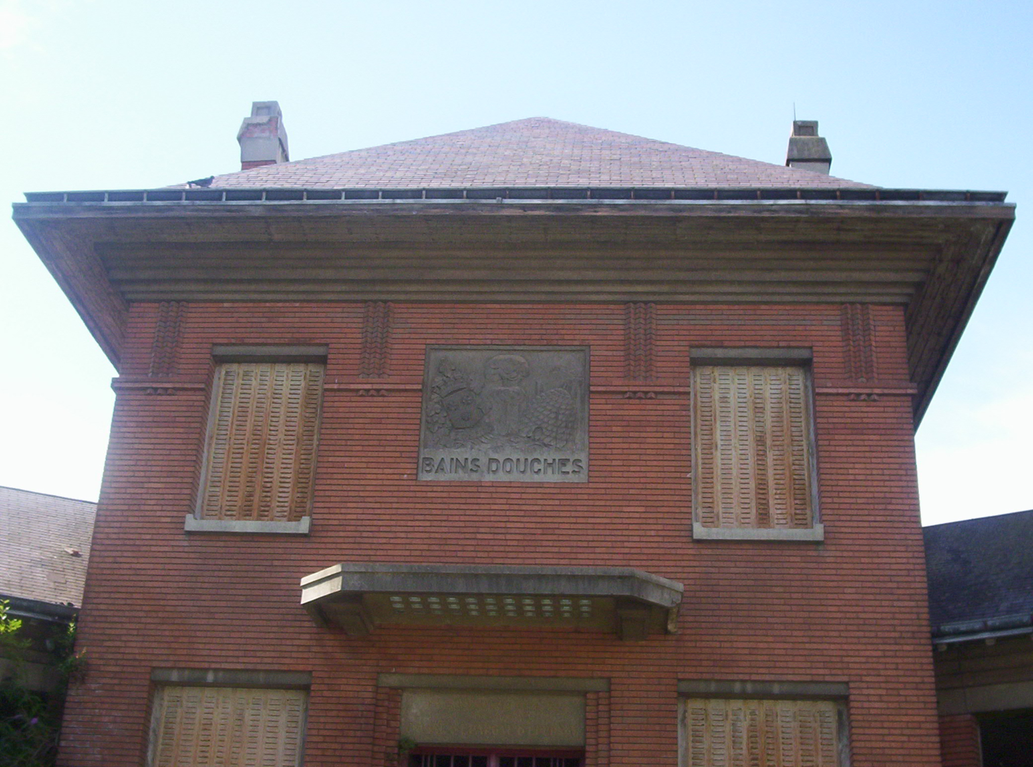 ancien Bain Public - Épernay